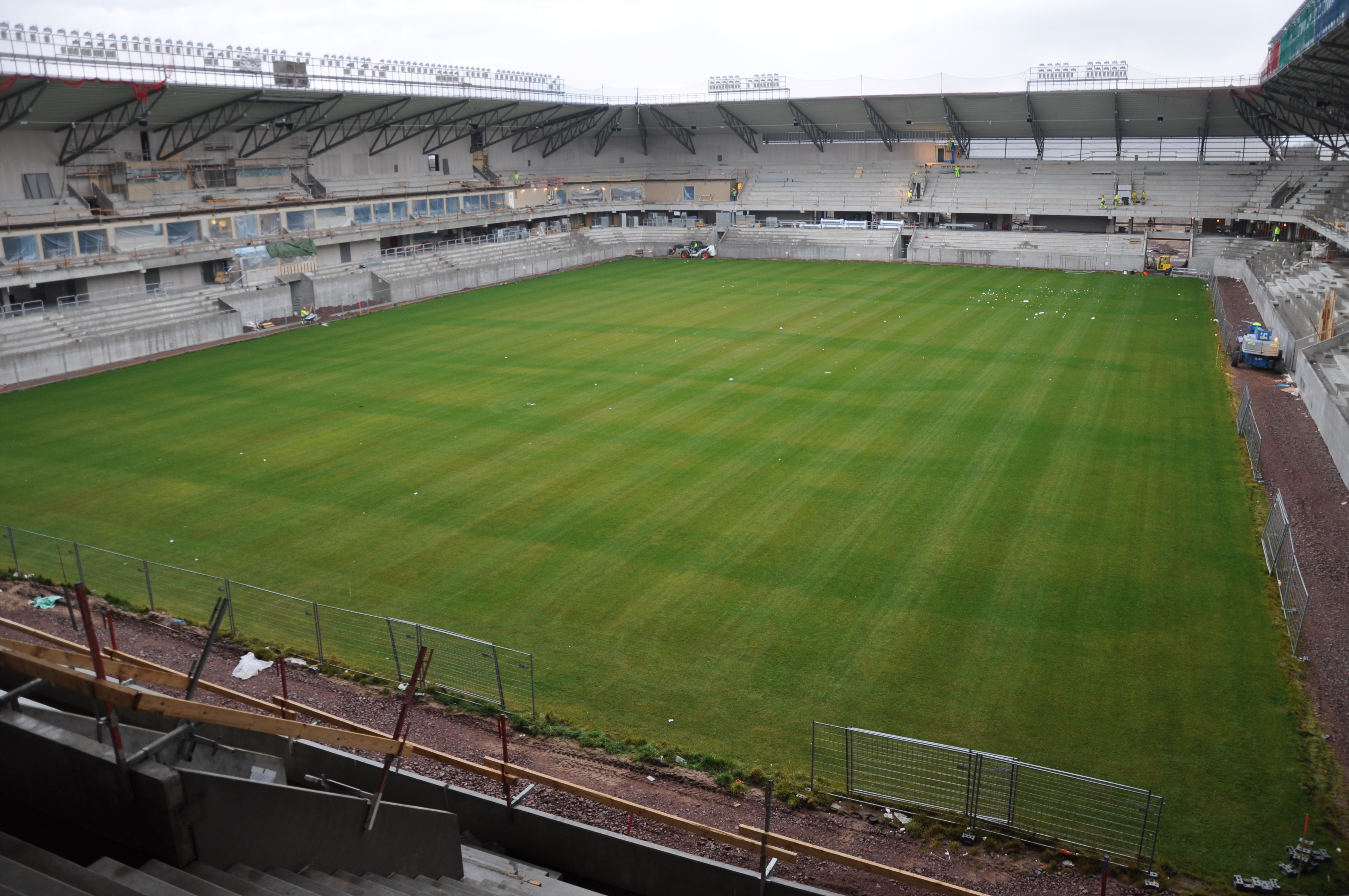 Guldfågeln Arena in Kalmar, Sweden, under construction.